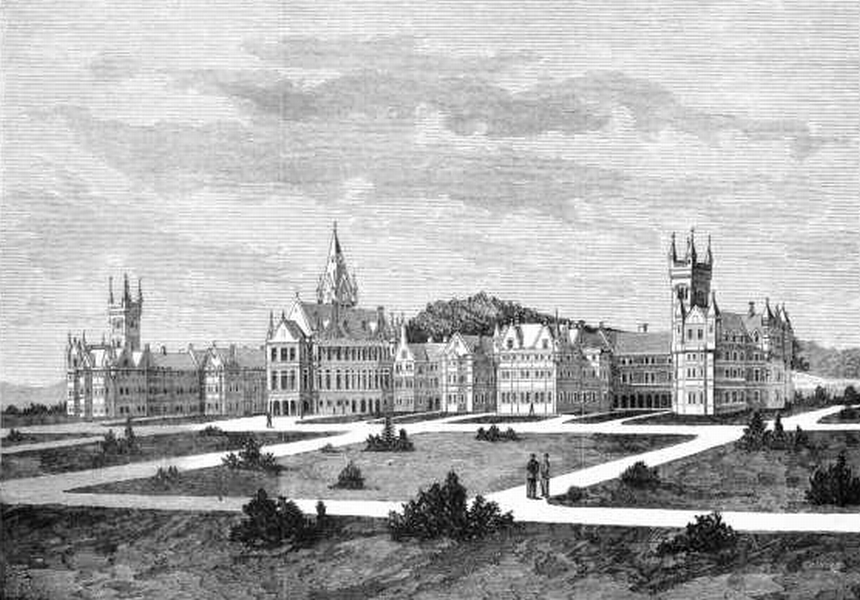 Seacliff Asylum, near Dunedin, New Zealand.